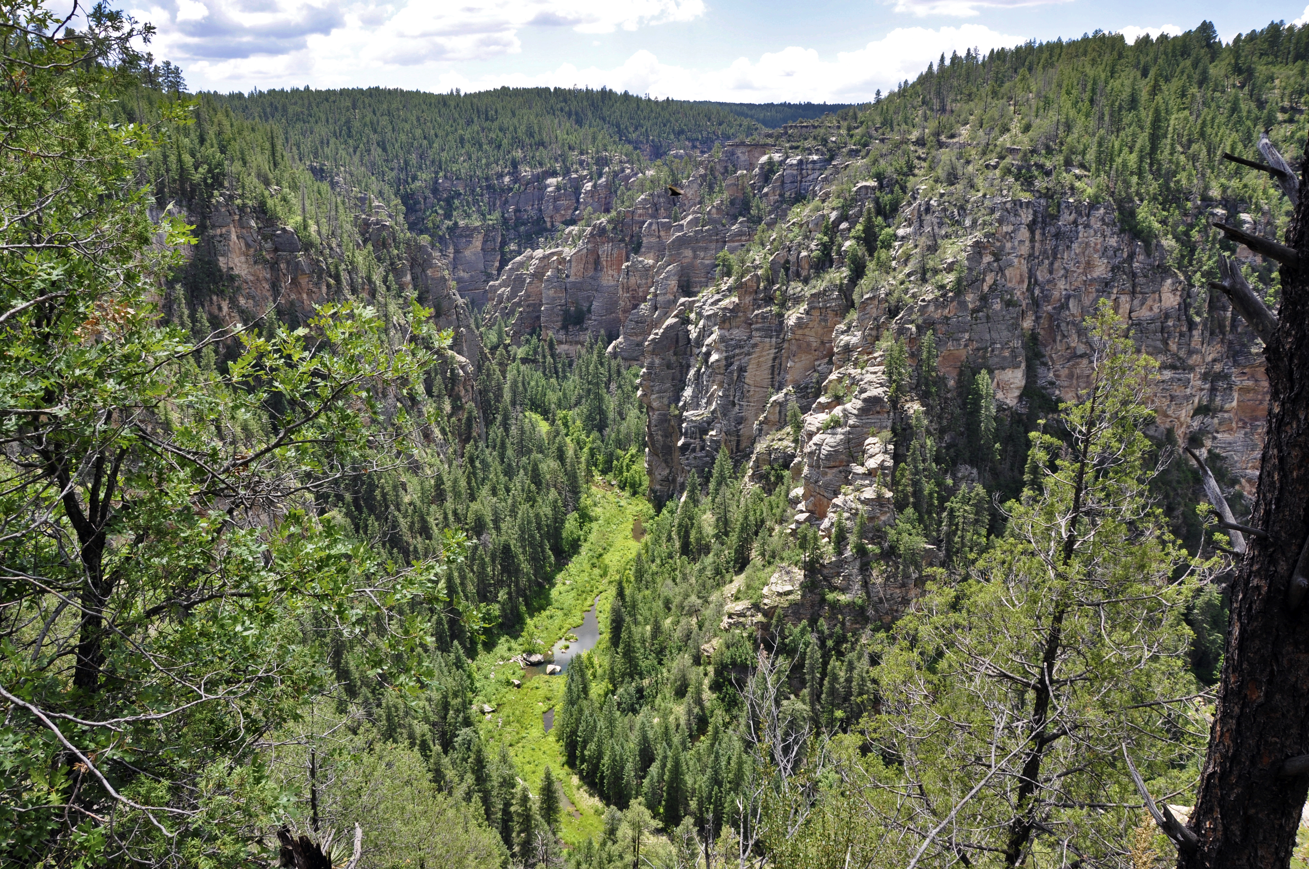 This little slice of heaven is on the eastern end of West Clear Creek Wilderness. If you look closely, you can see a Turkey Vulture soaring right in the middle of the photo. Taken 8-1-12 by Brady Smith. Credit: U.S. Forest Service, Coconino National Forest.